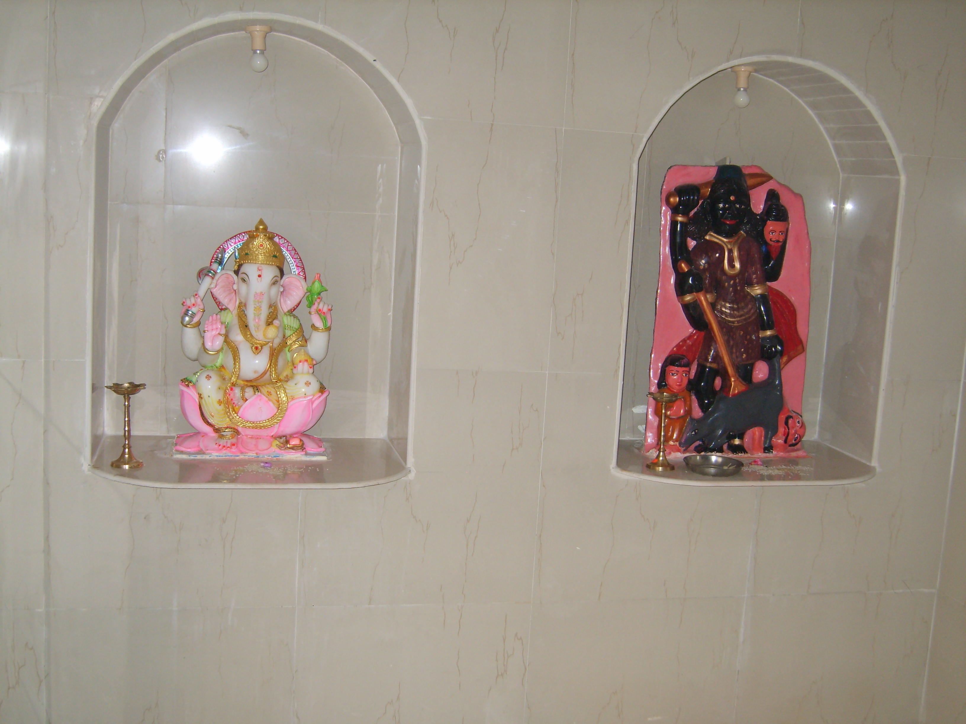 Nilkanth Mahadev, Isnav